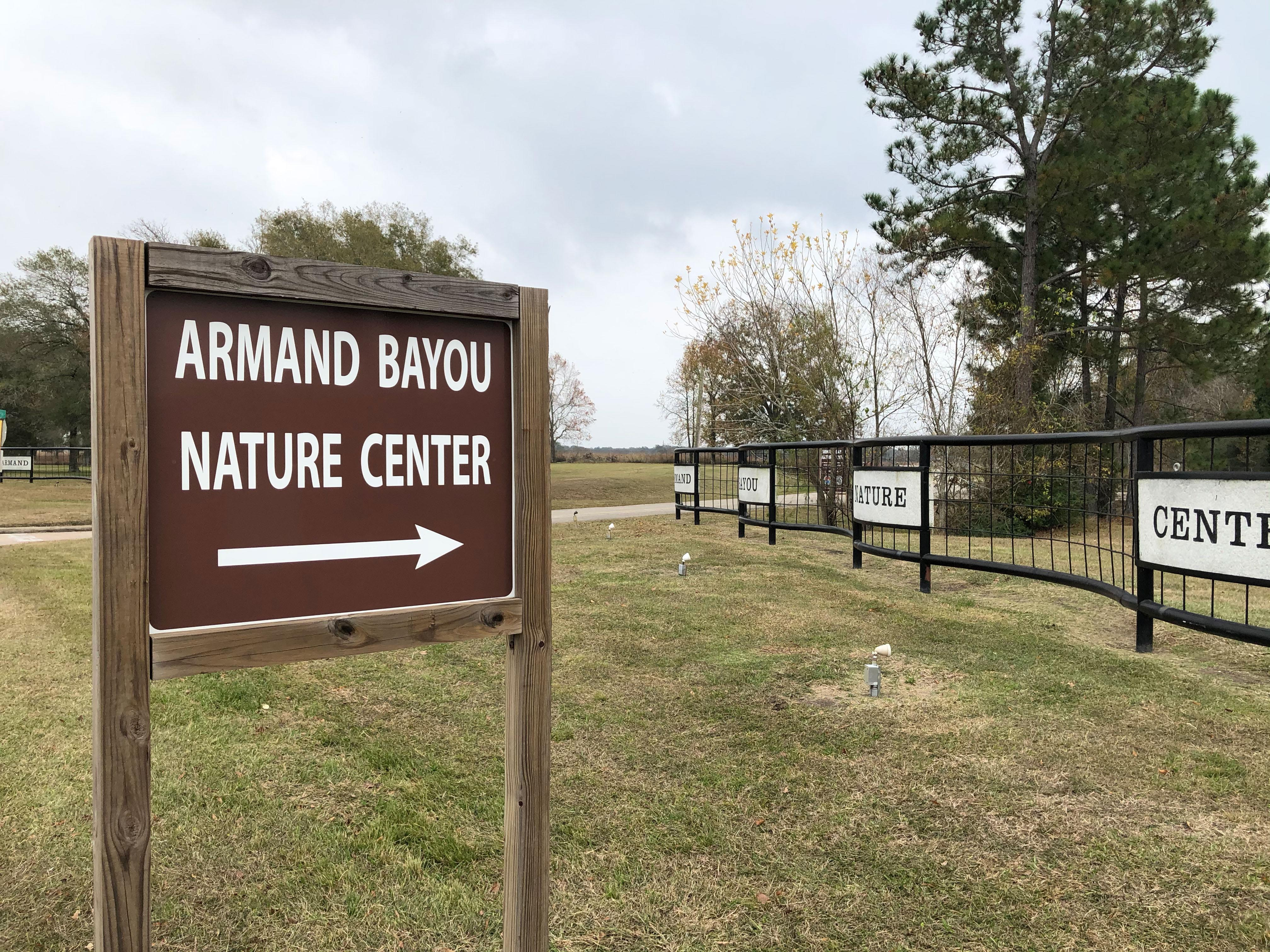 This is a sign pointing traffic towards Armand Bayou Nature Center off of Bay Area Blvd.